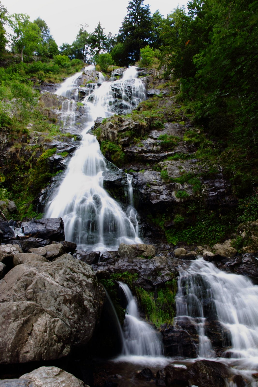 Waterfall of Todtnau